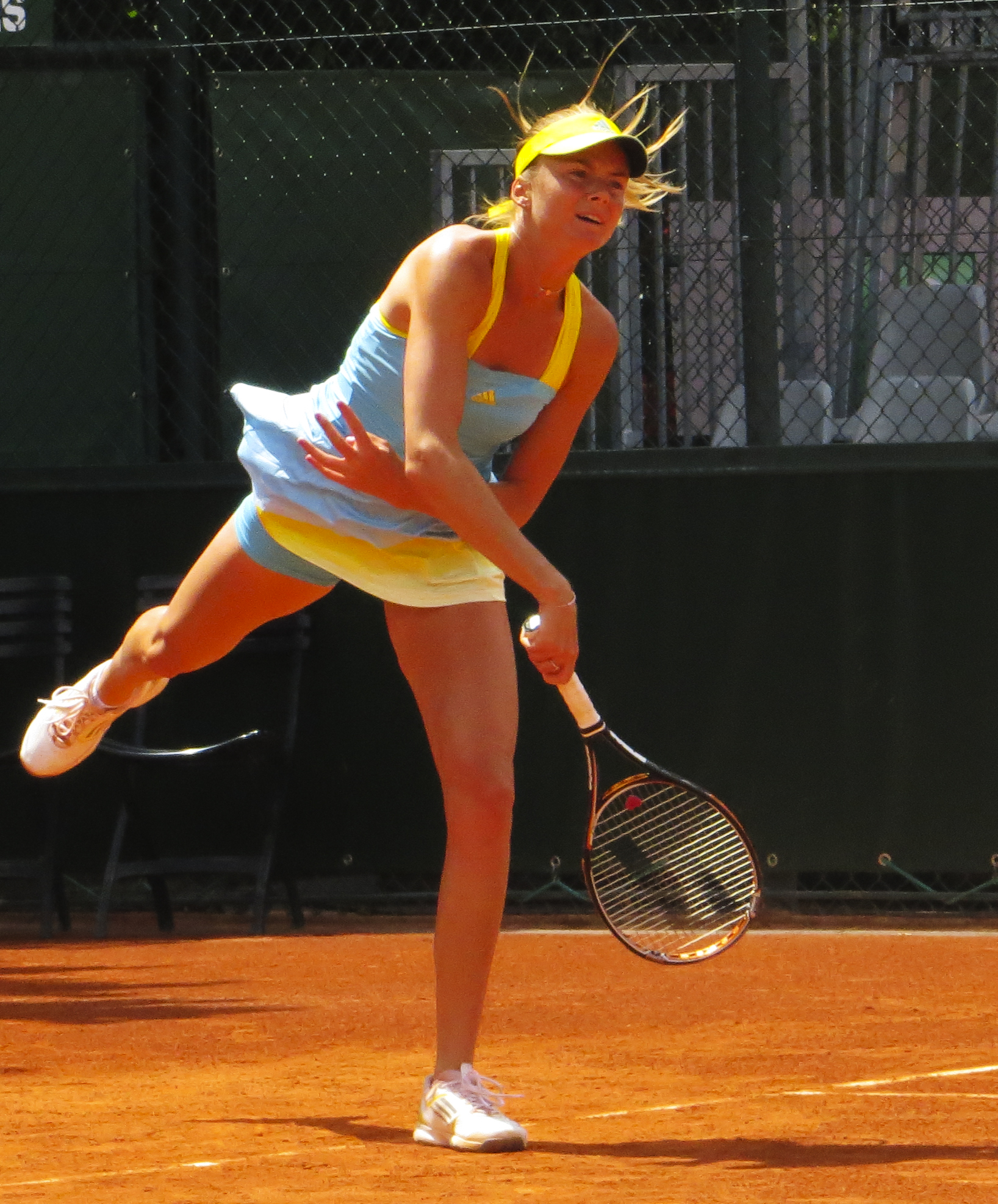 Daniela Hantuchova 2013